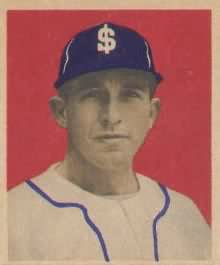 Former Major League Baseball player Ralph Hodgin in 1949.